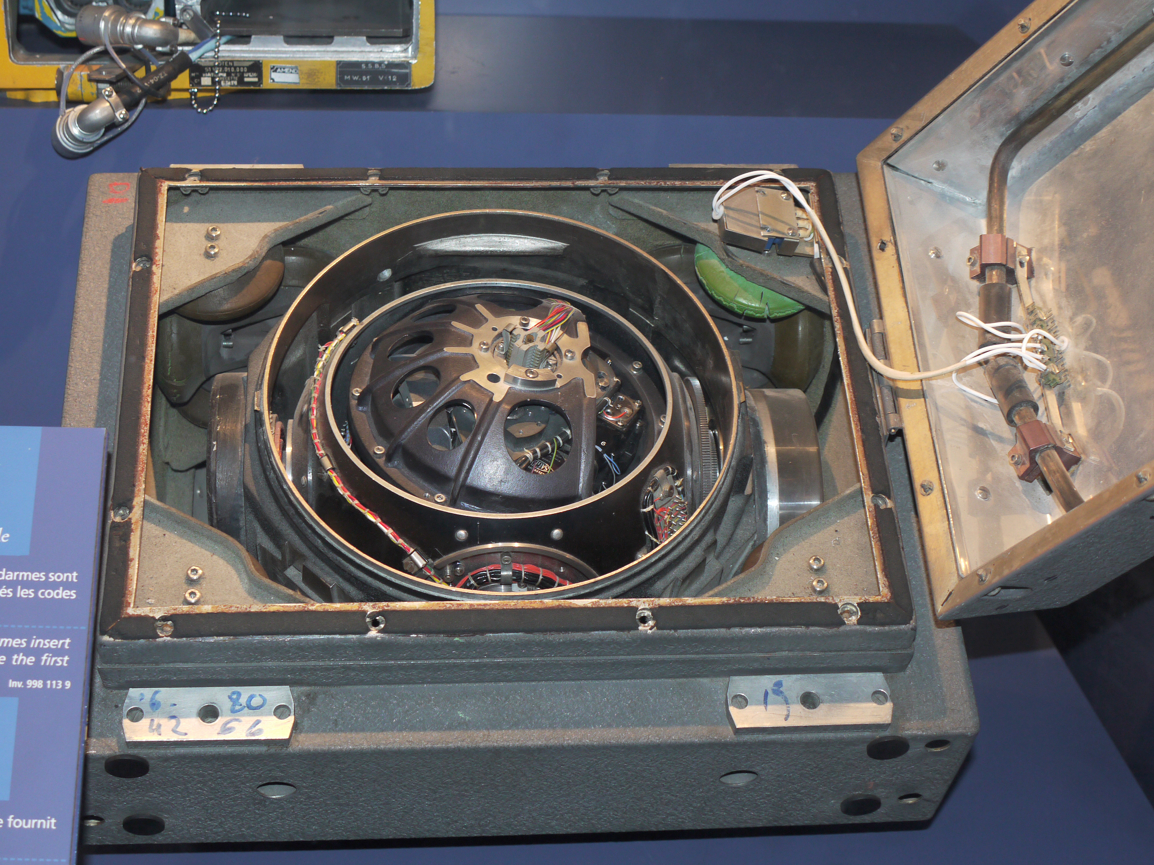 Inertial measurement unit of S3 Missile, Museum of Air and Space Paris, Le Bourget (France)